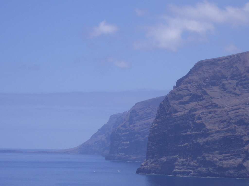 Description: Acantilado de los Gigantes (Cliffs of The Giants) on the west side of Tenerife (Spain). Source: Taken by me with my OptioS Pentax camera.